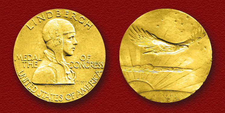 The Congressional Gold Medal, authorized by the Congress on 4 May 1928, and presented to Col. Charles A. Lindbergh by President Calvin Coolidge at The White House, Washington, DC, 15 August 1930